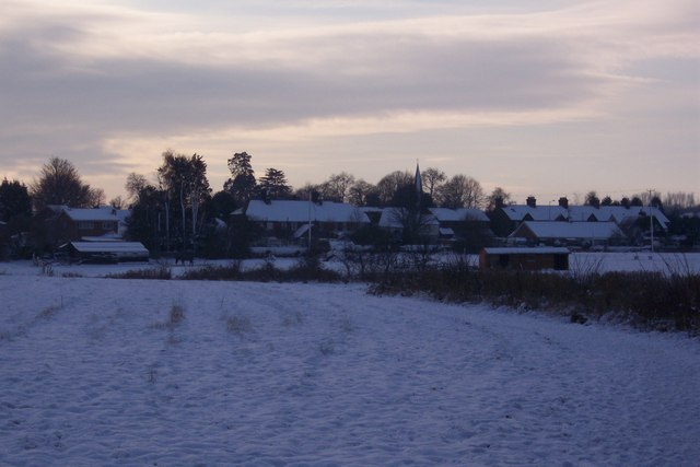 View of Bapchild in the snow Seen from Tong Mill Countryside Park. St Lawrence Church's church spire is seen in the background.